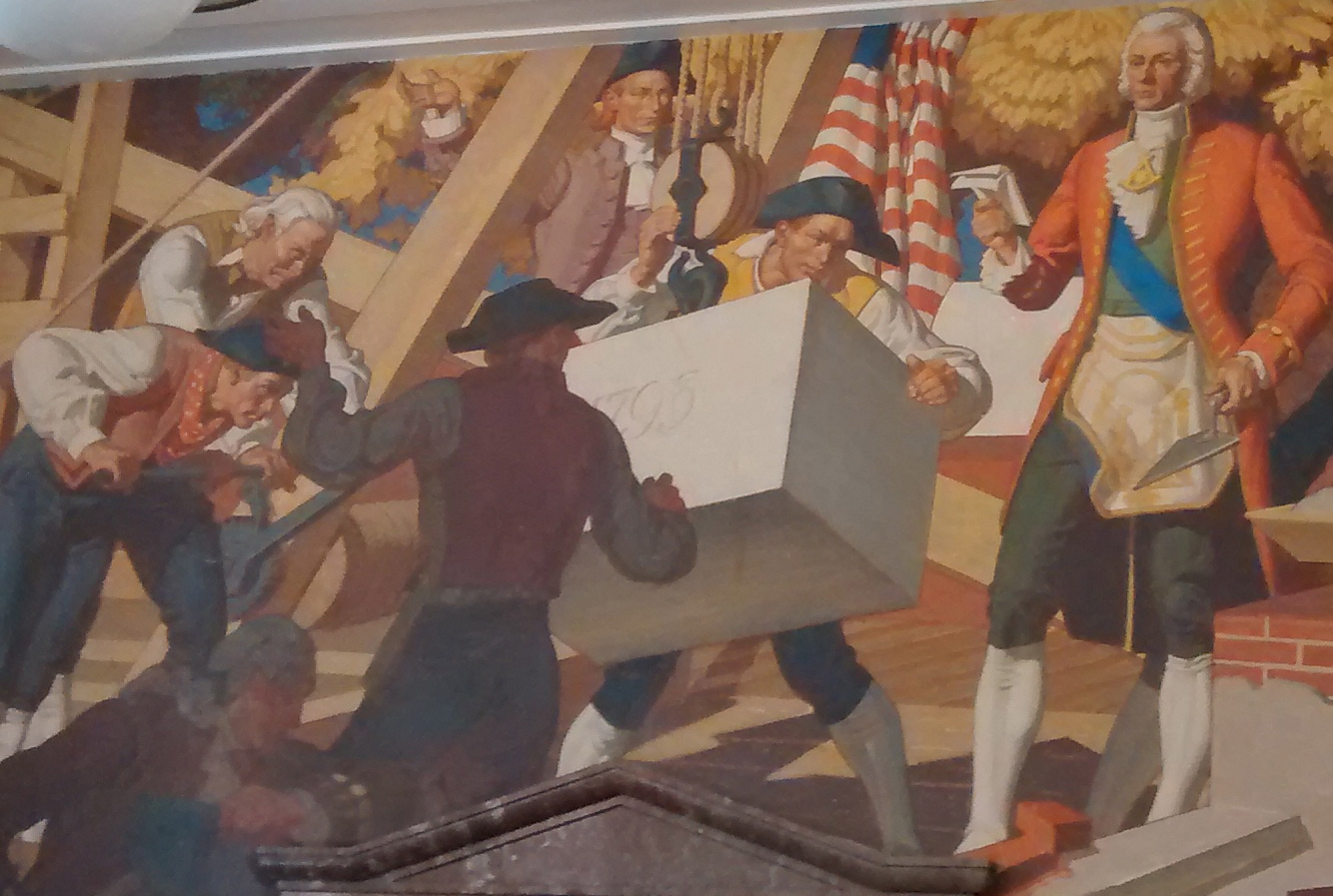 The mural Laying the Cornerstone of Old East by Dean Cornwell, inside the Chapel Hill Post Office. One of the murals of Chapel Hill.